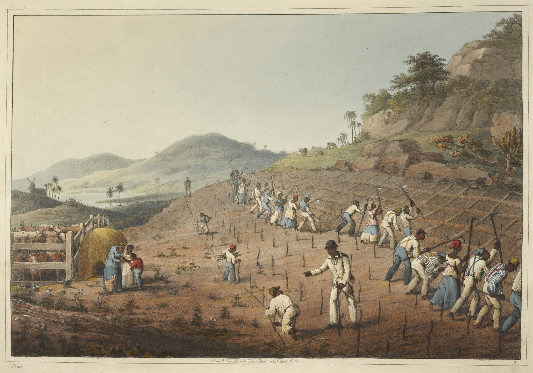 Digging the Cane-holes Slaves planting and tilling.